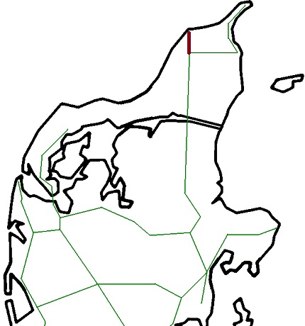 Map of railways in Northern Jutland in Denmark with the private railway Hirtshalsbanen between Hjørring and Hirtshals in brown.